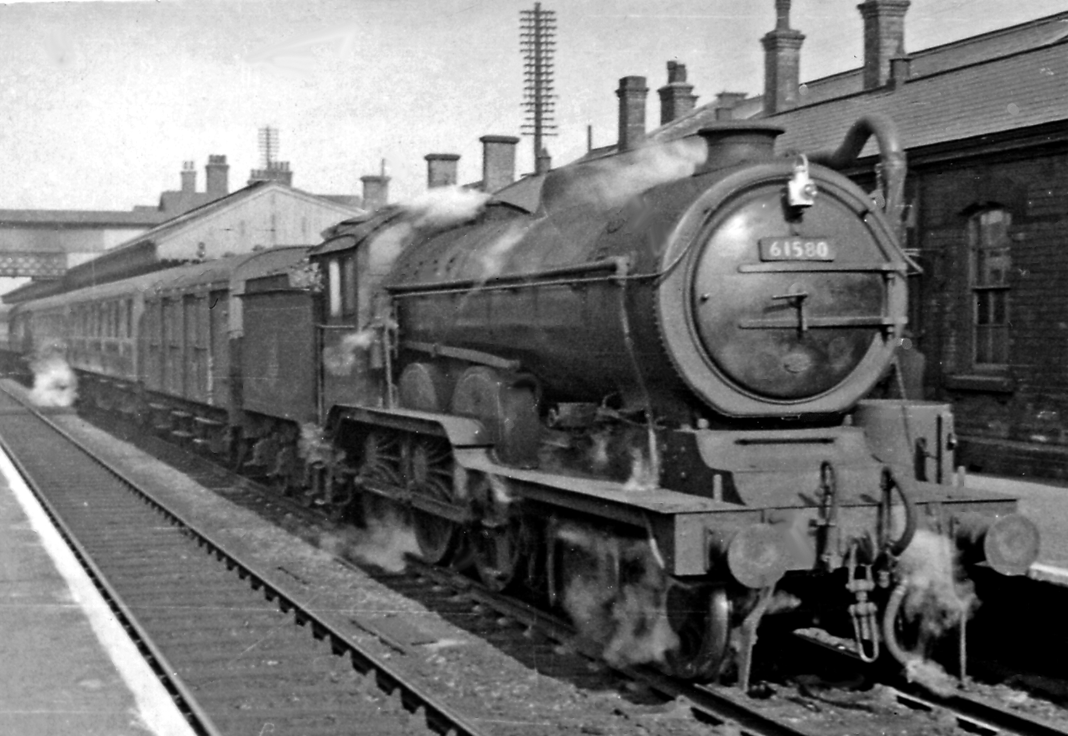 Stopping train to Peterborough at Grantham. View northward, towards Doncaster etc. on the ex-GN ECML. The 09.55 slow to Peterborough North is standing at the Up Main platform headed by LNER B12/3 No. 61580 (the last built, in 10/28 as B12/1, rebuilt 9/32, withdrawn 3/59).